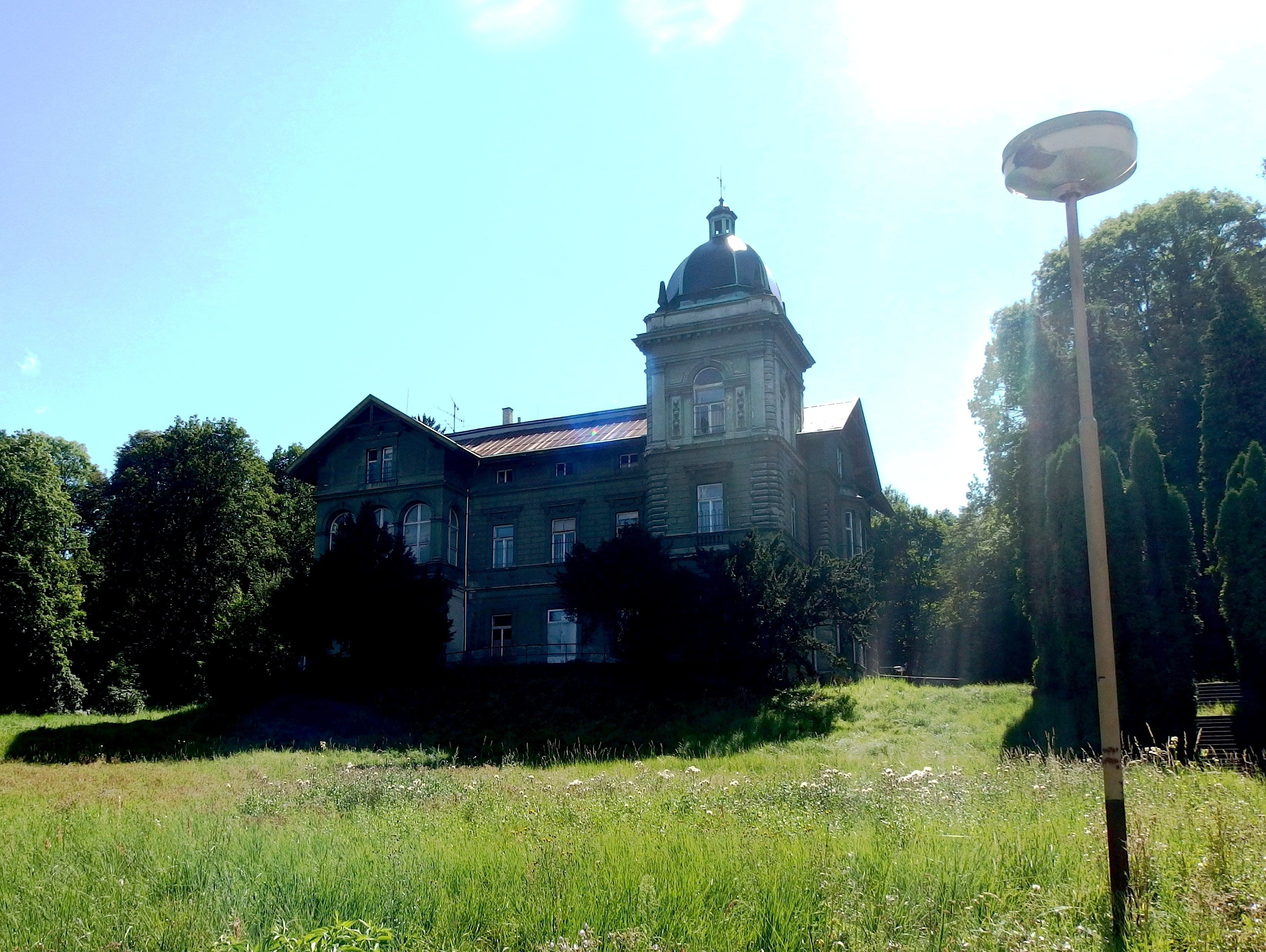 Nový Jičín, Czech Republic.